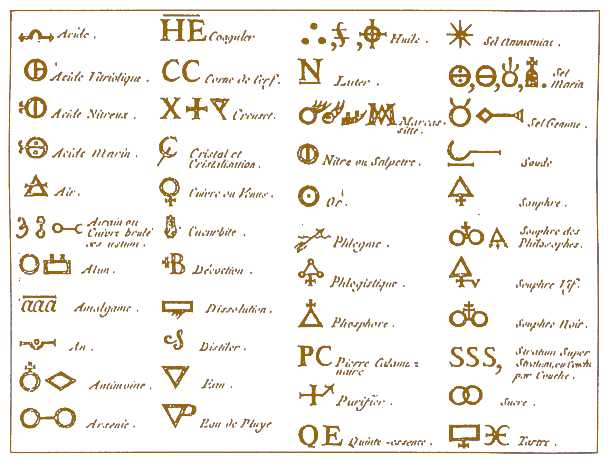 abstract "chimie" in encyclopedia of Diderot and d'Alembert